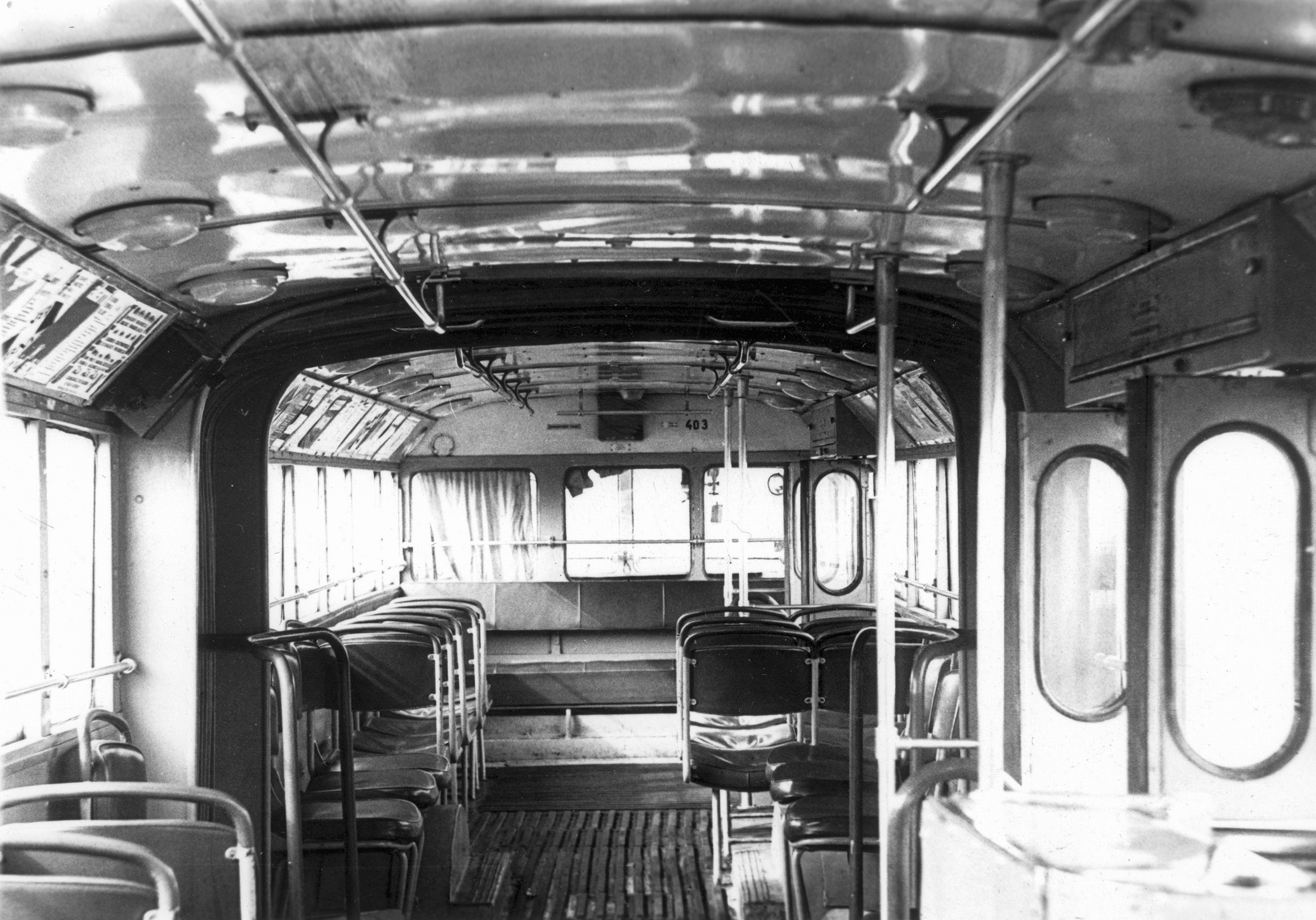 Location: Hungary, Budapest Tags: transport, vehicle, Hungarian brand, Ikarus-brand, Ikarus 60T articulated